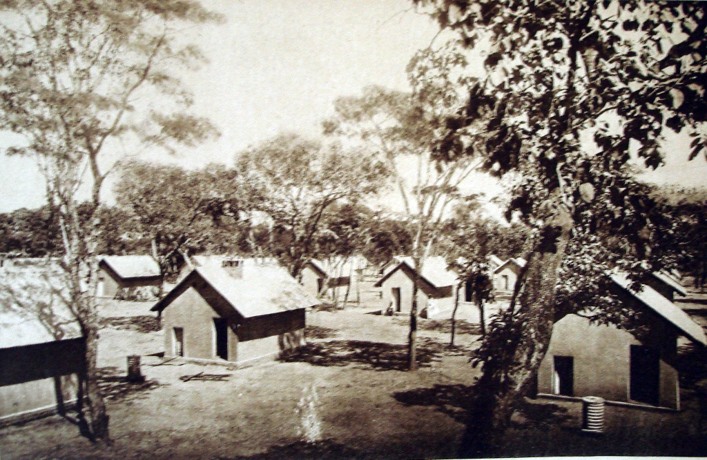 Residential camp "Prince Leopold" for native workers, copper mines Union Minière du Haut Katanga, Belgian Congo, 1927.